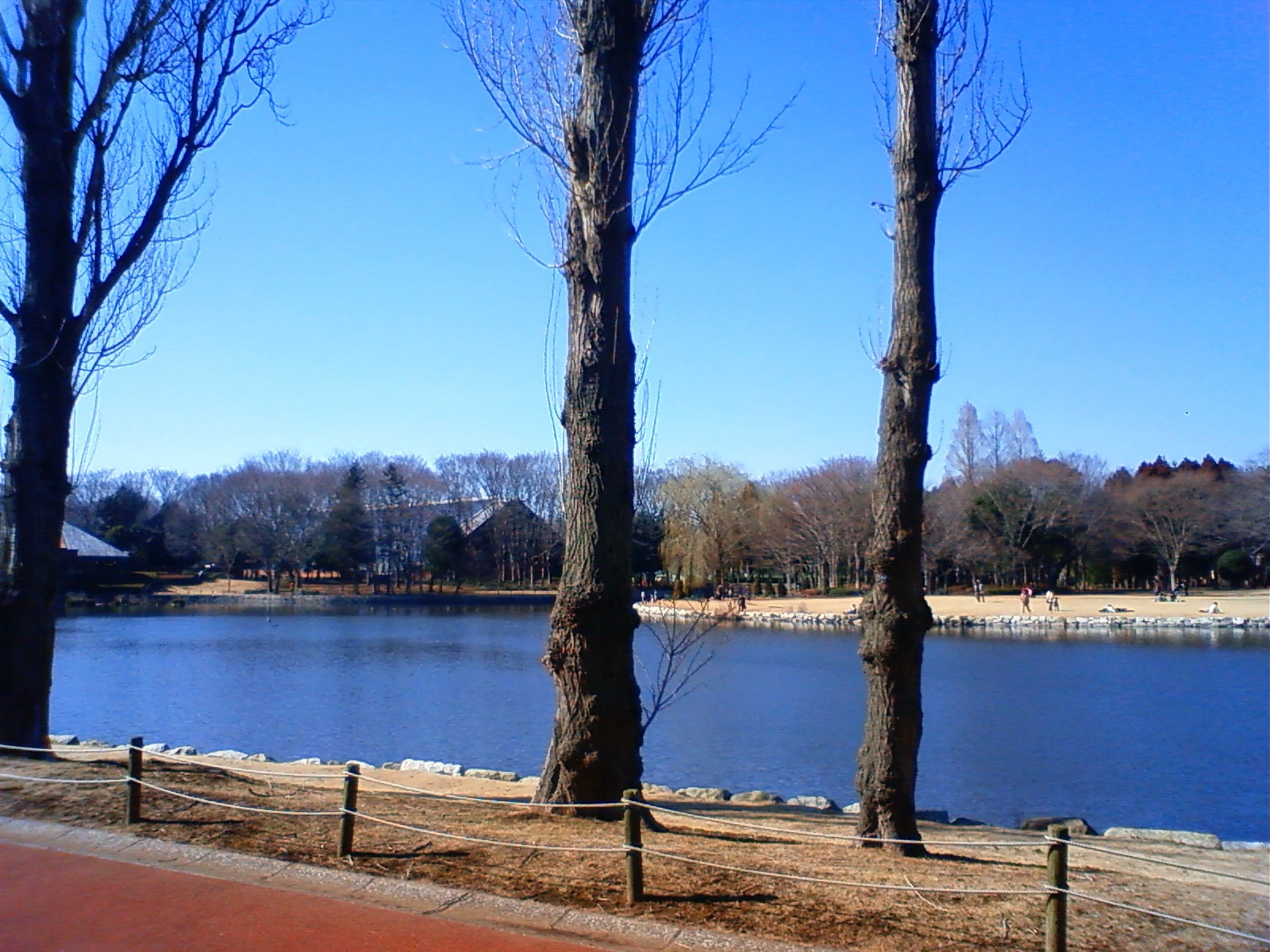 This is a photo of Doho Marsh, which is located in Tsukuba, Ibaraki, japan.